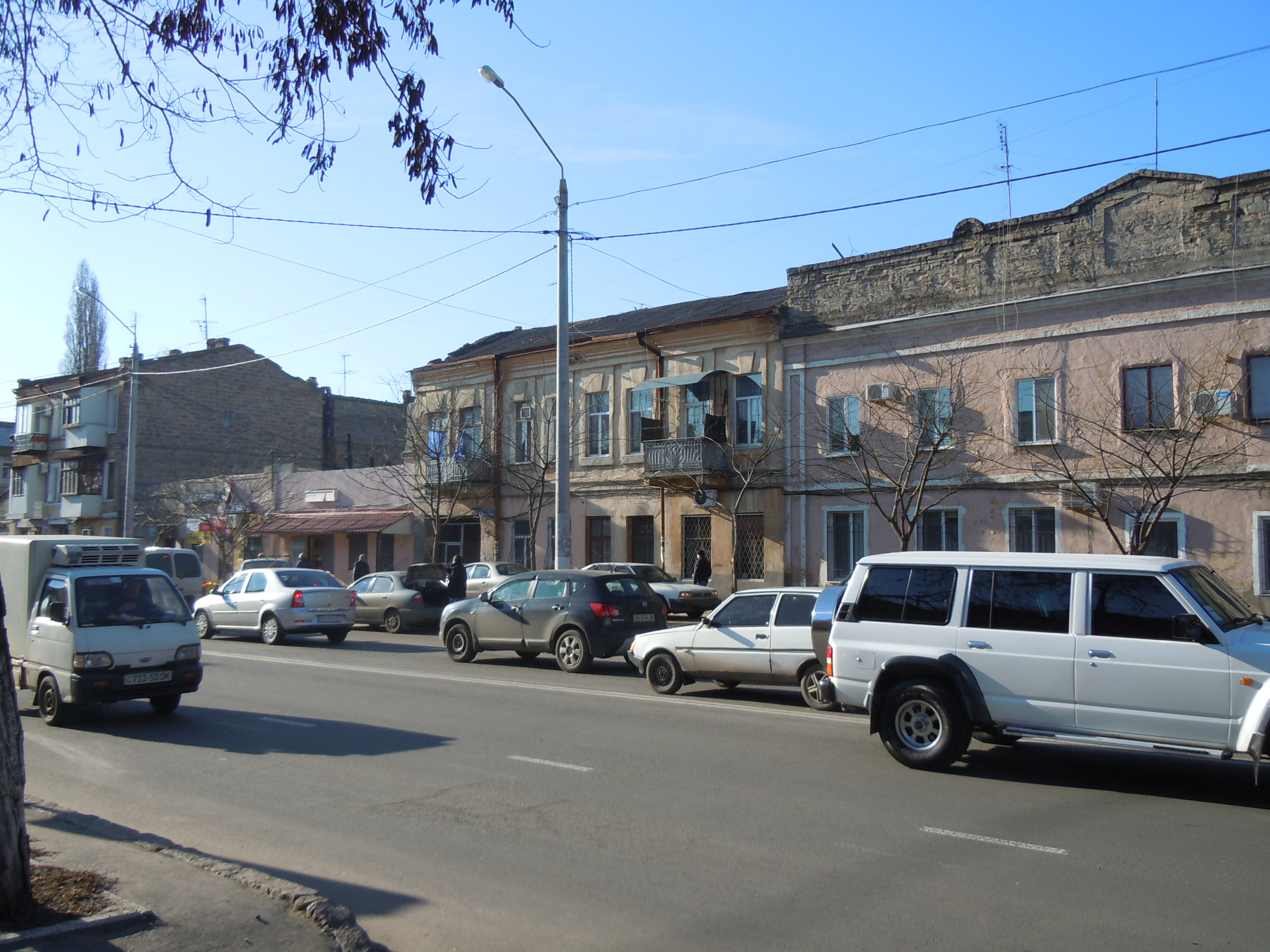 Myasoyidivska st., Odessa, Ukraine